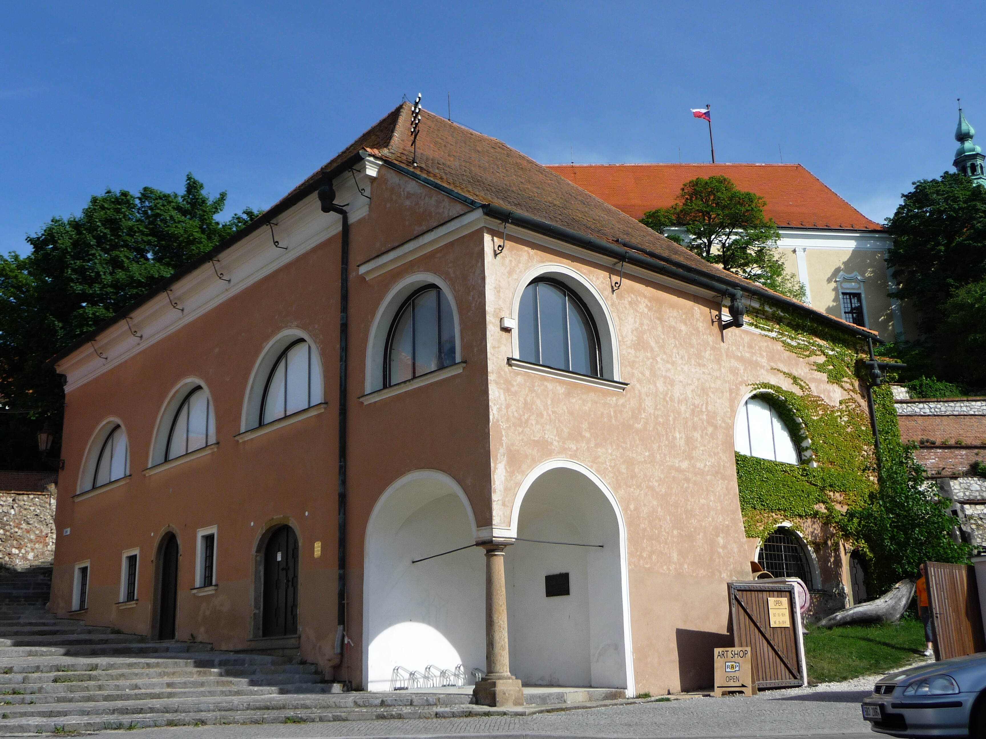 The Upper Synagogue in Mikulov (South Moravian Region, Czechia).